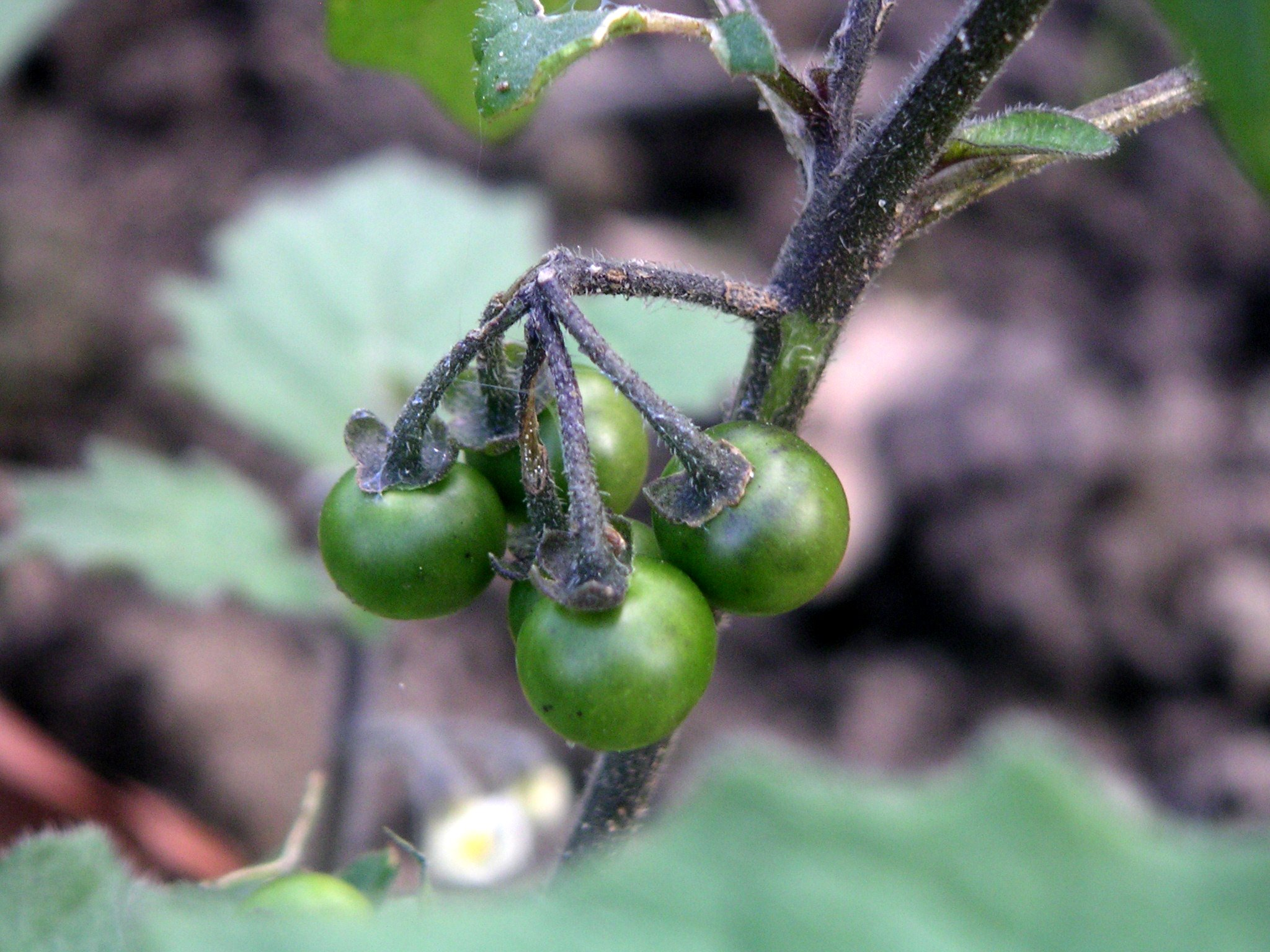 Unripe fruits of Solanum villosum (as Solanum latua) at Botanical Garden Krefeld, Germany.